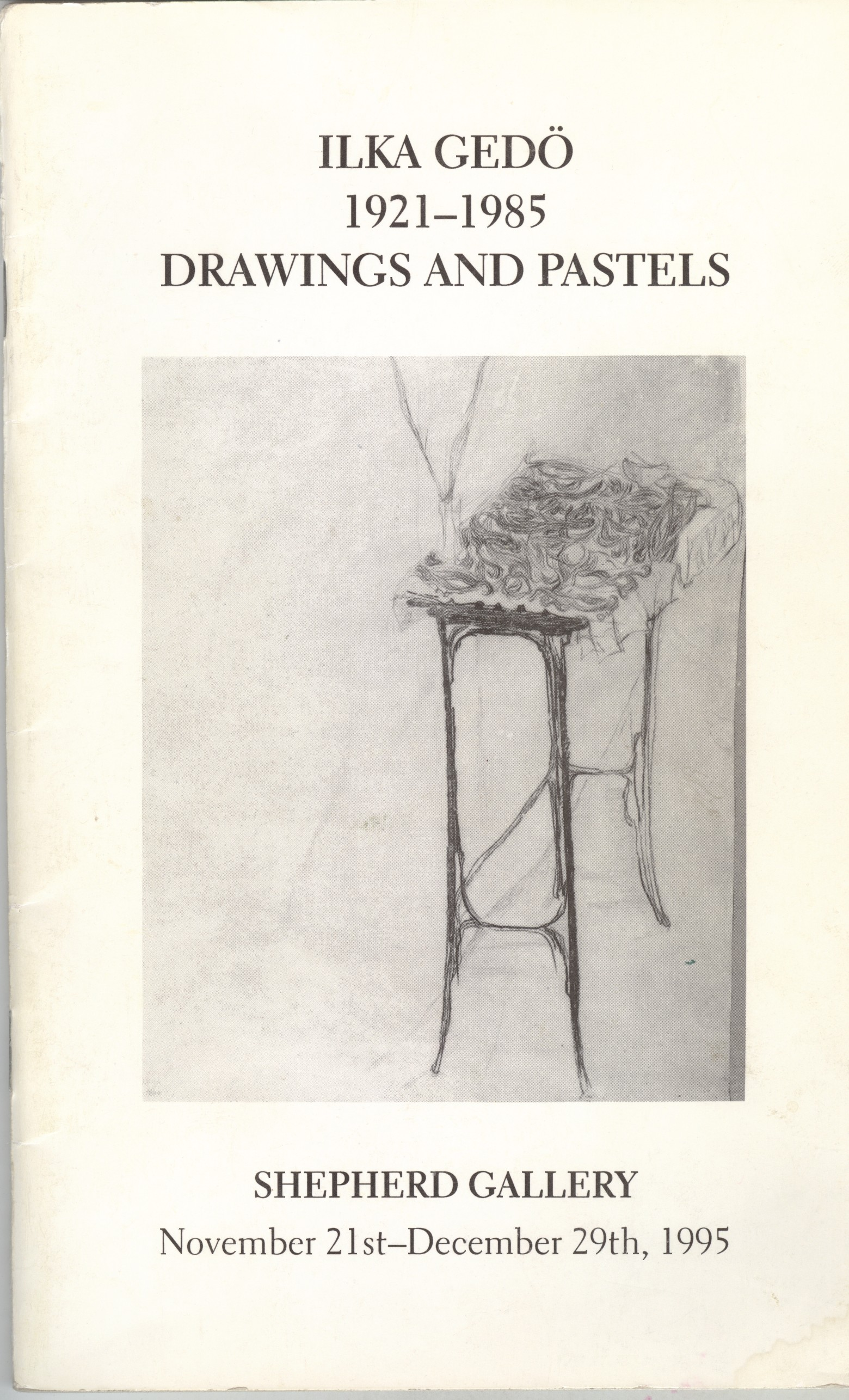 Cover Page of Ilka Gedo's New York exhibition catalog